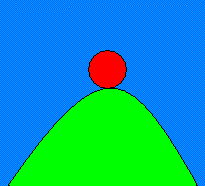 a ball on a hall, as a allegory to atmospheric stability